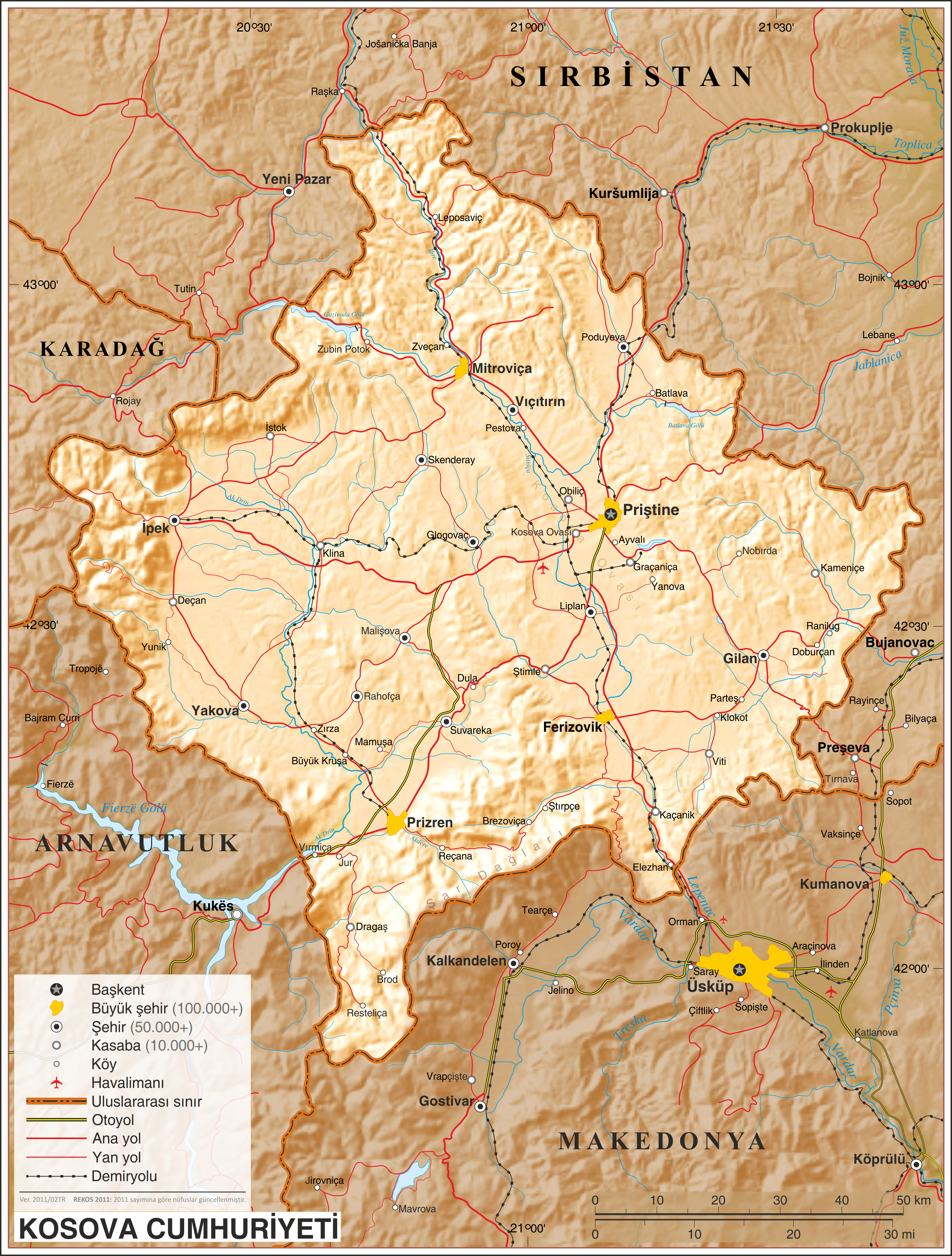 Topographic map of Republic of Kosovo in Turkish language.